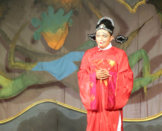 From Chinese mythology, the Kitchen God, named Zao Jun (Chinese: 灶君; pinyin: Zào Jūn; literally "stove master")Huang) who rewards or punishes each household accordingly.... This pix is in the famous play "12 bà mụ" of Nguyễn Khắc Phục.